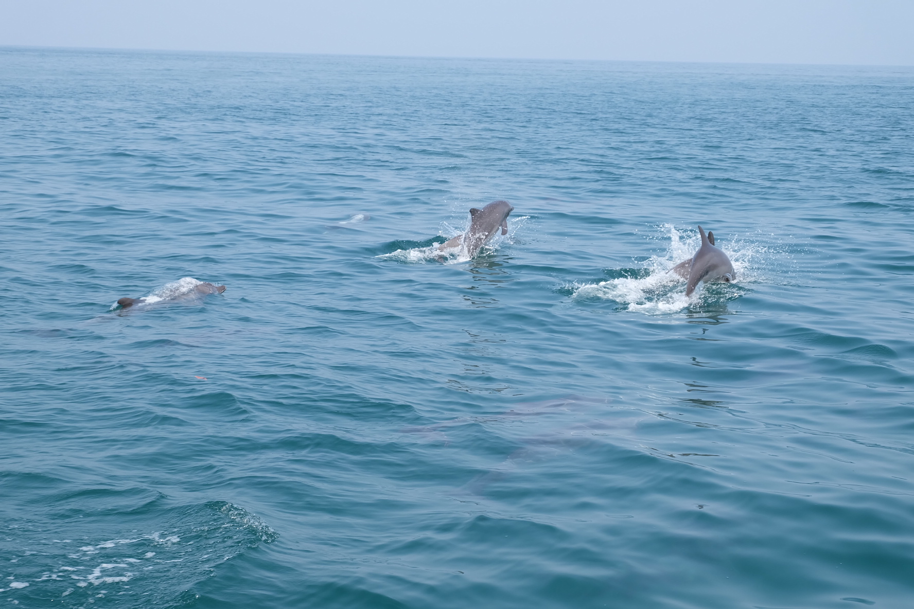 A group of dolphins in Andaman Sea, Mu Ko Surin National Park, Phangnga Province